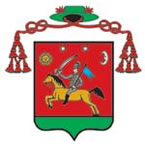 Coat of arms of Hejőkürt, Hungary